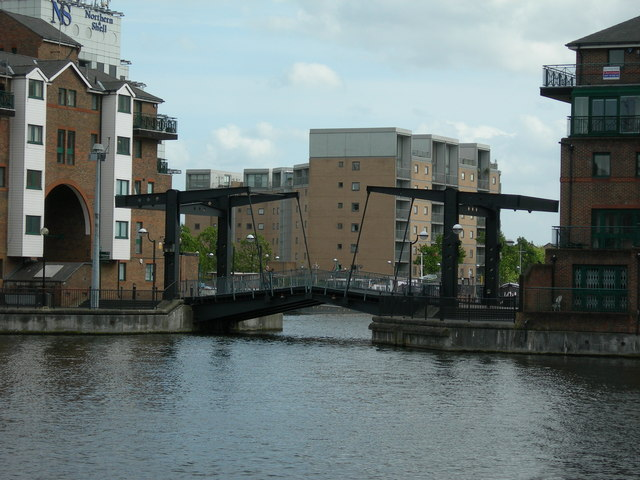 Glengall Bridge, Millwall Dock This bridge carries Pepper Street across Millwall Inner Dock